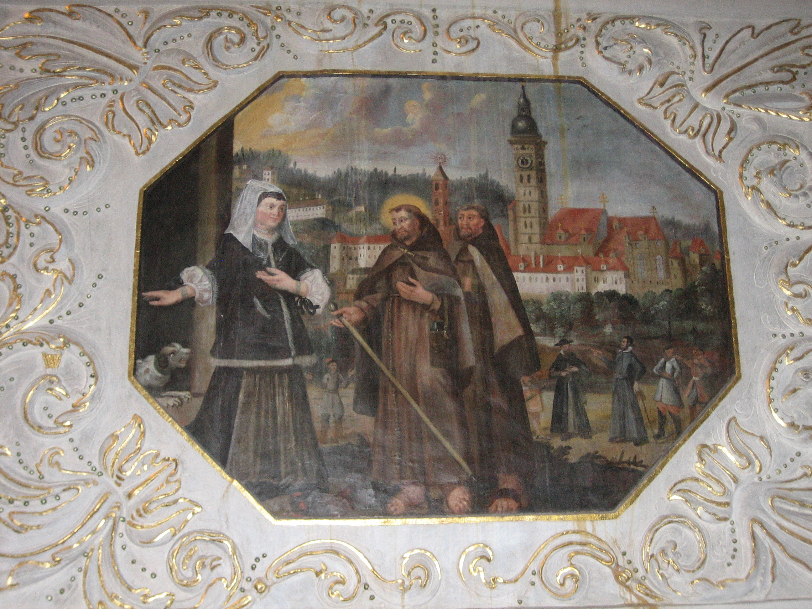 St. Francis Monastery of the franciscans in Zagreb, Croatia. Baroque chapel of St. Francis: picture of Katarina Galović receiving st. Francis in Zagreb, whith the Zagreb cathedral in the background.